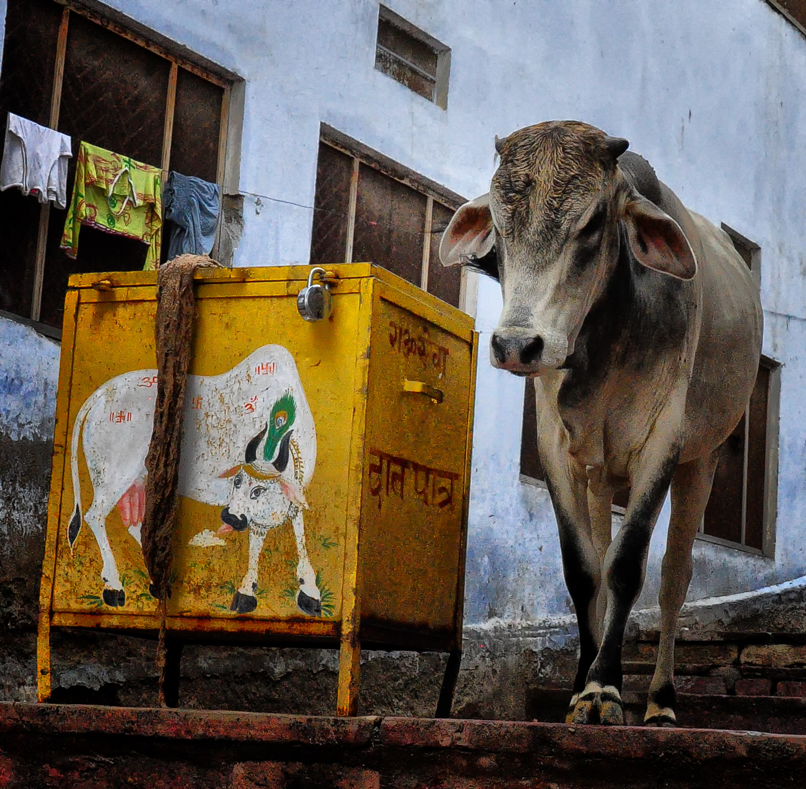 Holy Cow Container, India